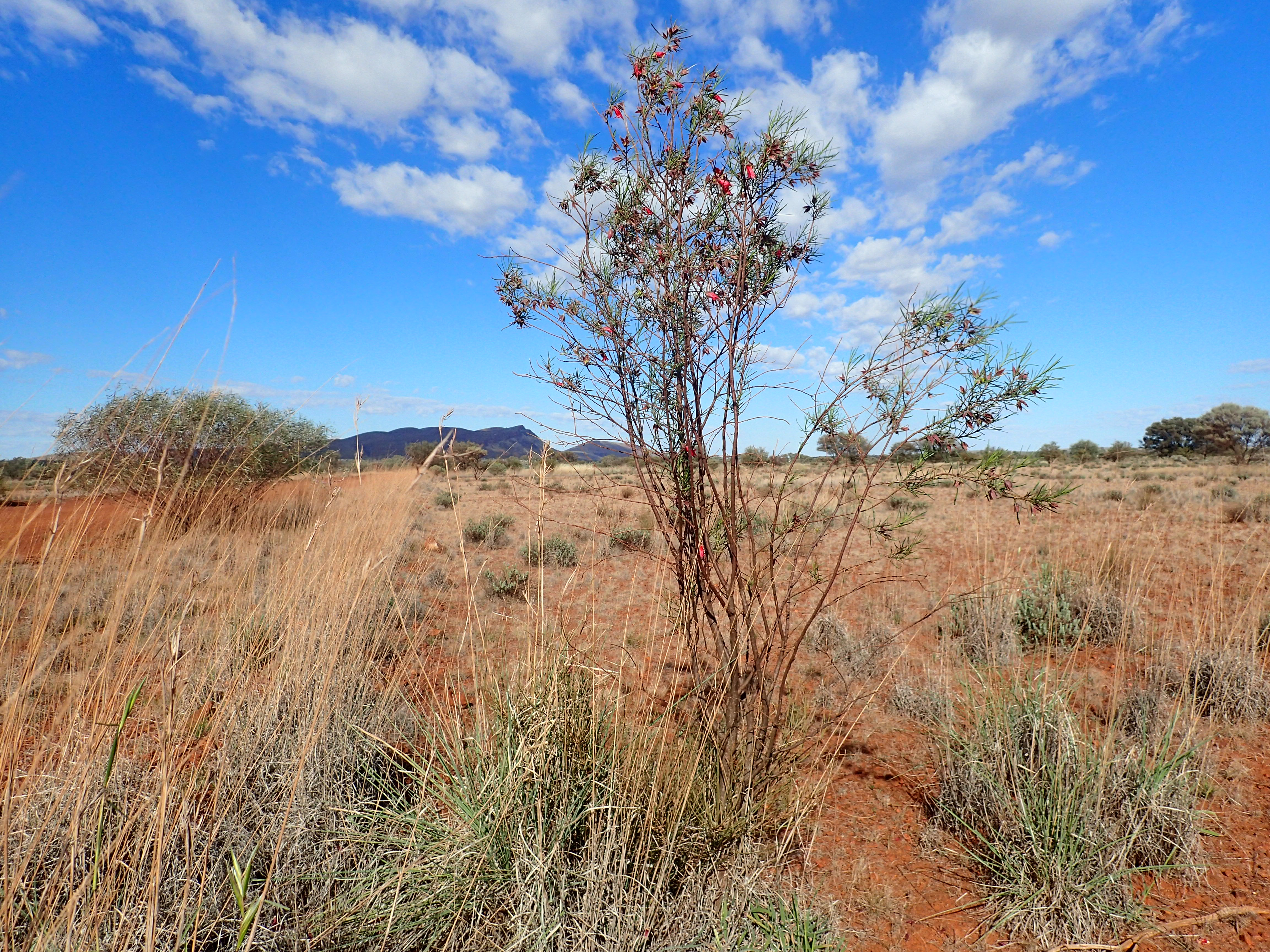 Eremophila latrobei filiformis growing about 2km south along the "Prairie Downs" track